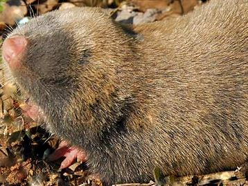 Spalax leucodon, syn. Nannospalax leucodon